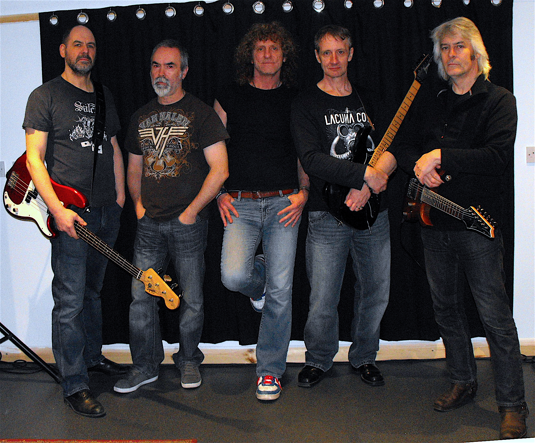 Salem (UK) taking a break from rehearsal at Robbie's Rehearsal Studios, Hedon Road, Hull, UK - April 2016.